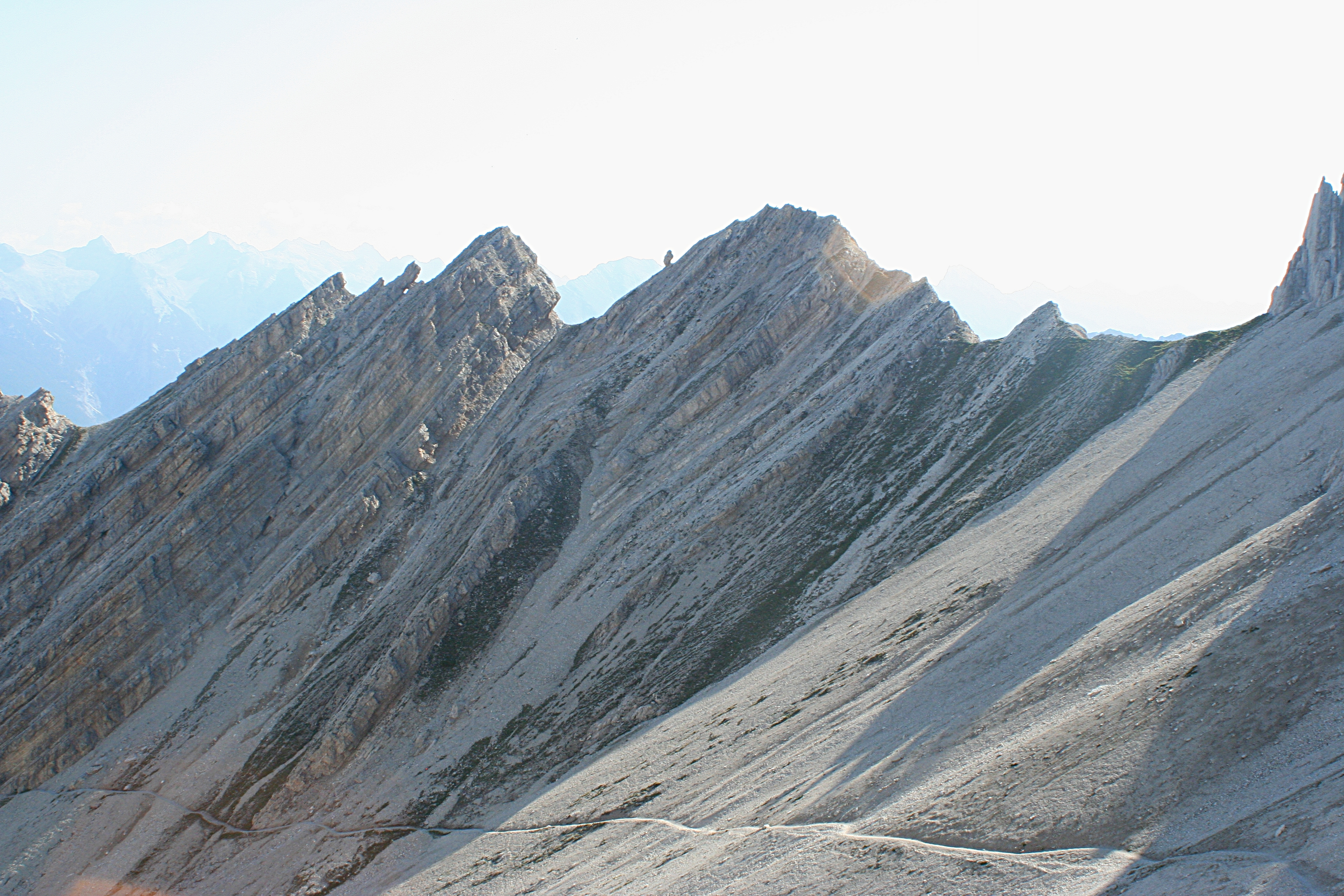 The upper Hauptdolomit in the Reither Kar, Erlspitz-Group, Karwendel, Austria